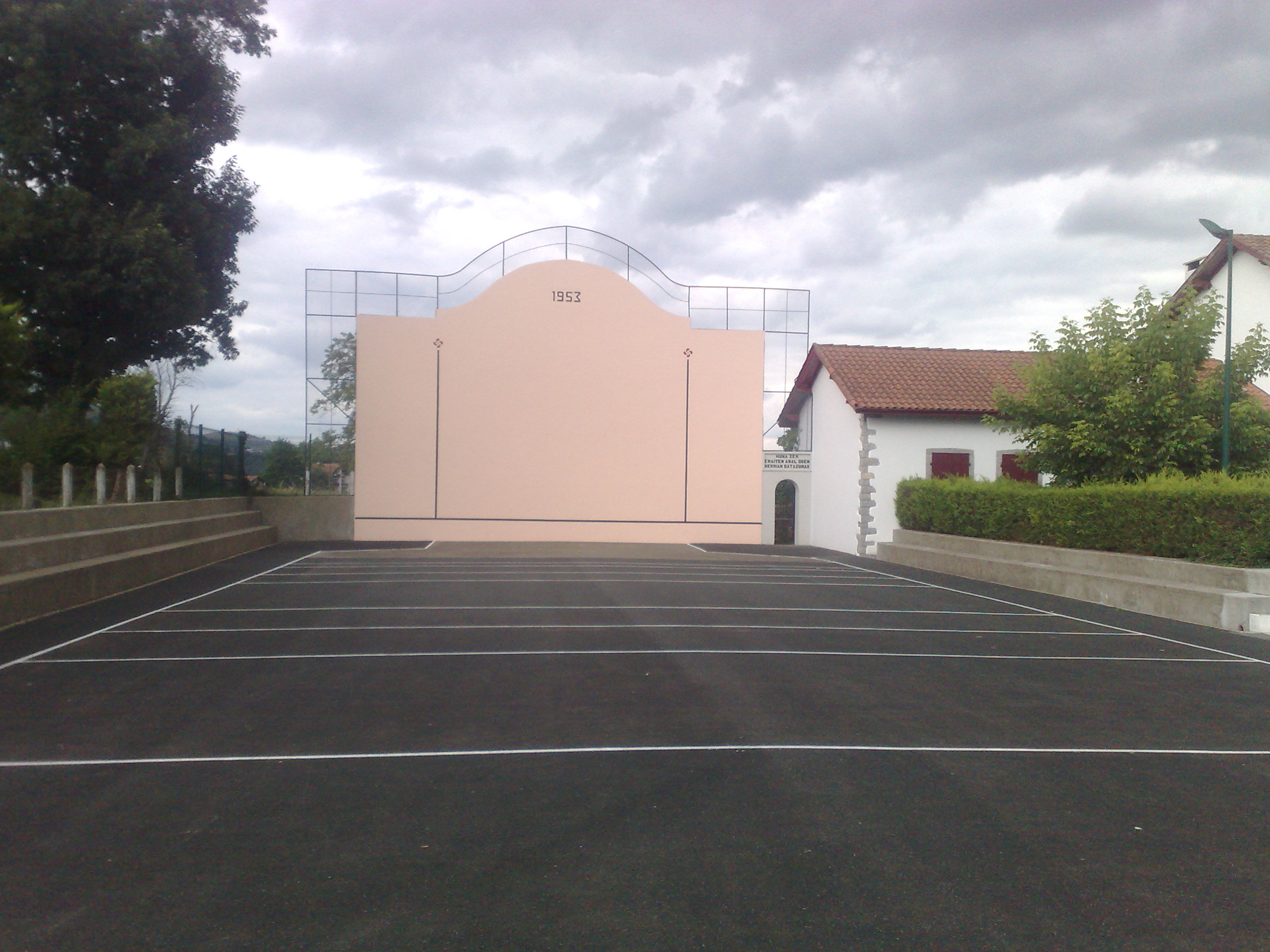 Pelota court (1953) in Larzabale (fr. Larceveau), Lower Navarre, Basque Country.